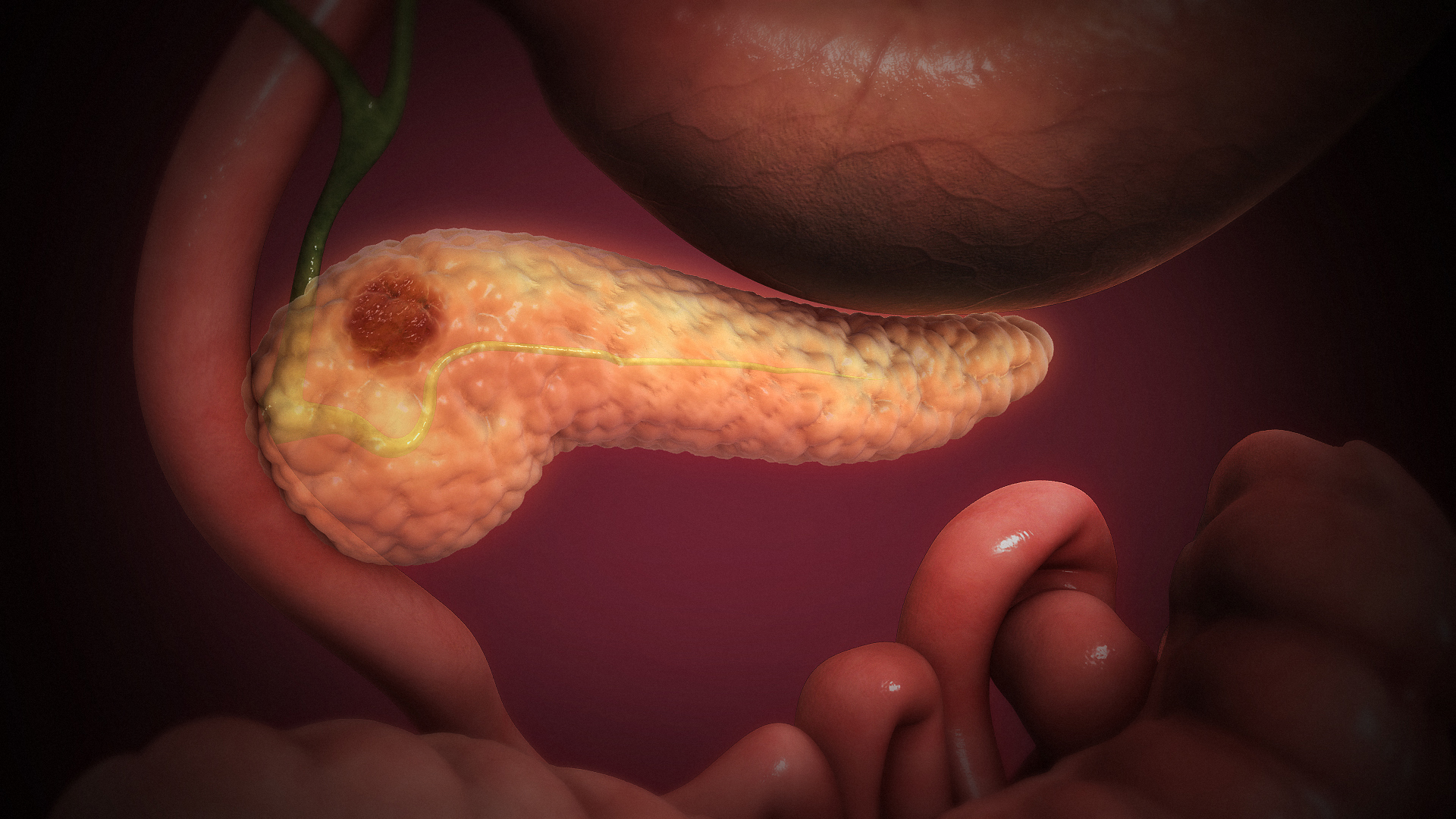 Cancerous cells forming a lump in the pancreatic tissue.